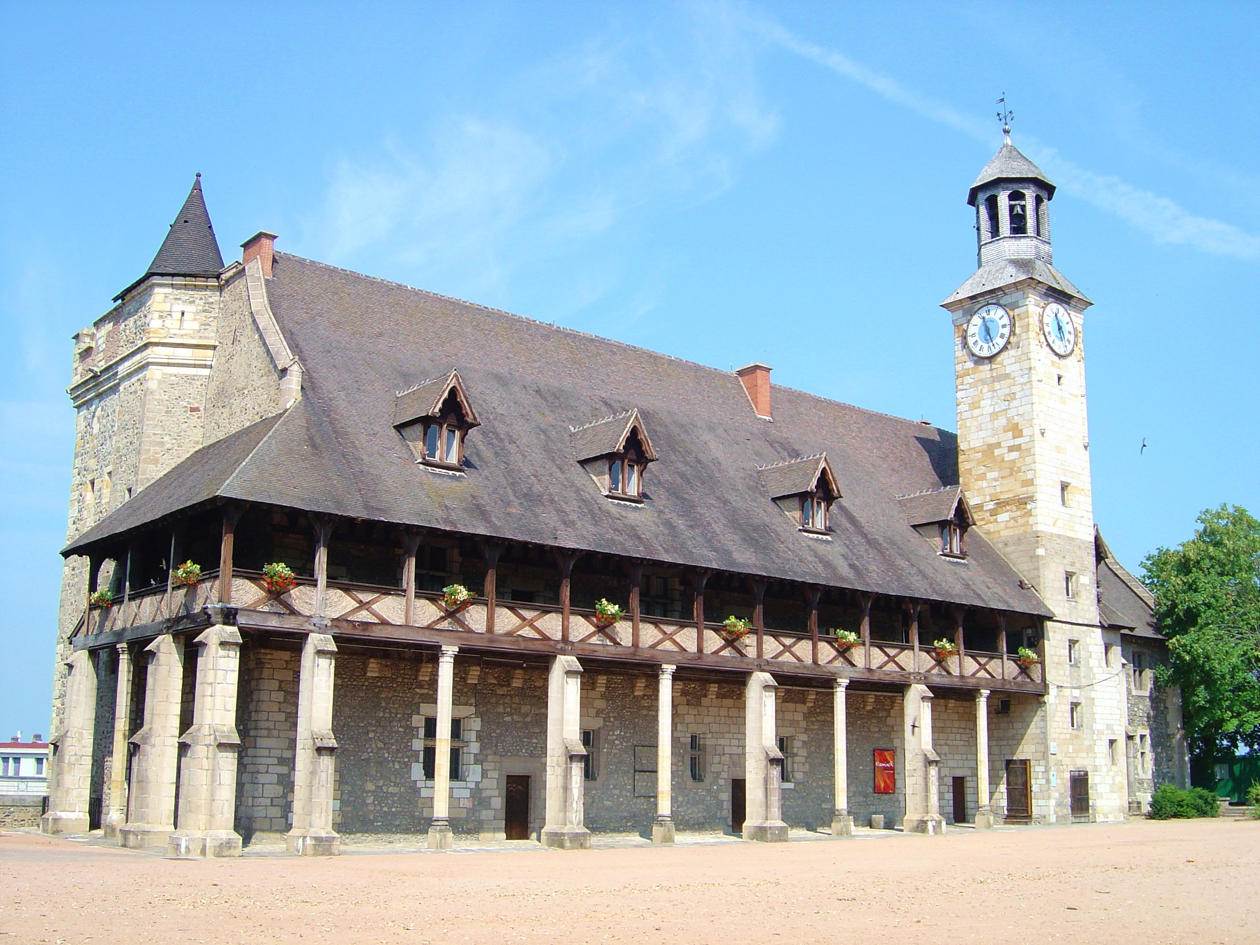 The castle of Montluçon (France) I took this photo in July 2006